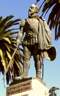 Hernando de Lerma, Fundador de Salta, Argentina